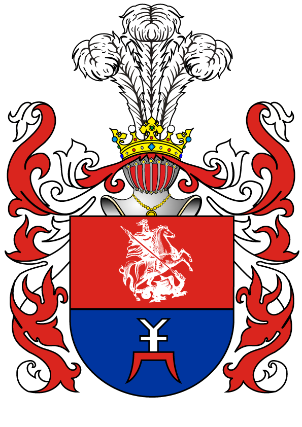 Coat of Arms of Ogiński